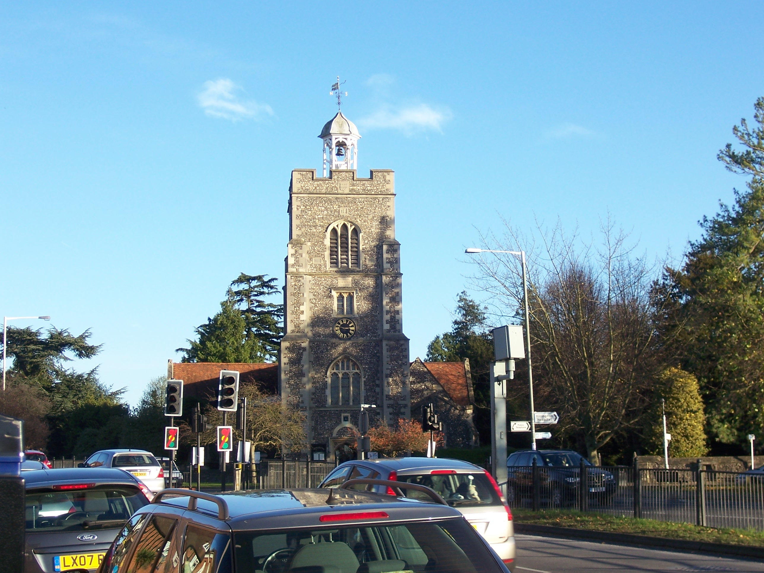 Parish church of St John the Baptist, Hillingdon, Middlesex, seen from the west